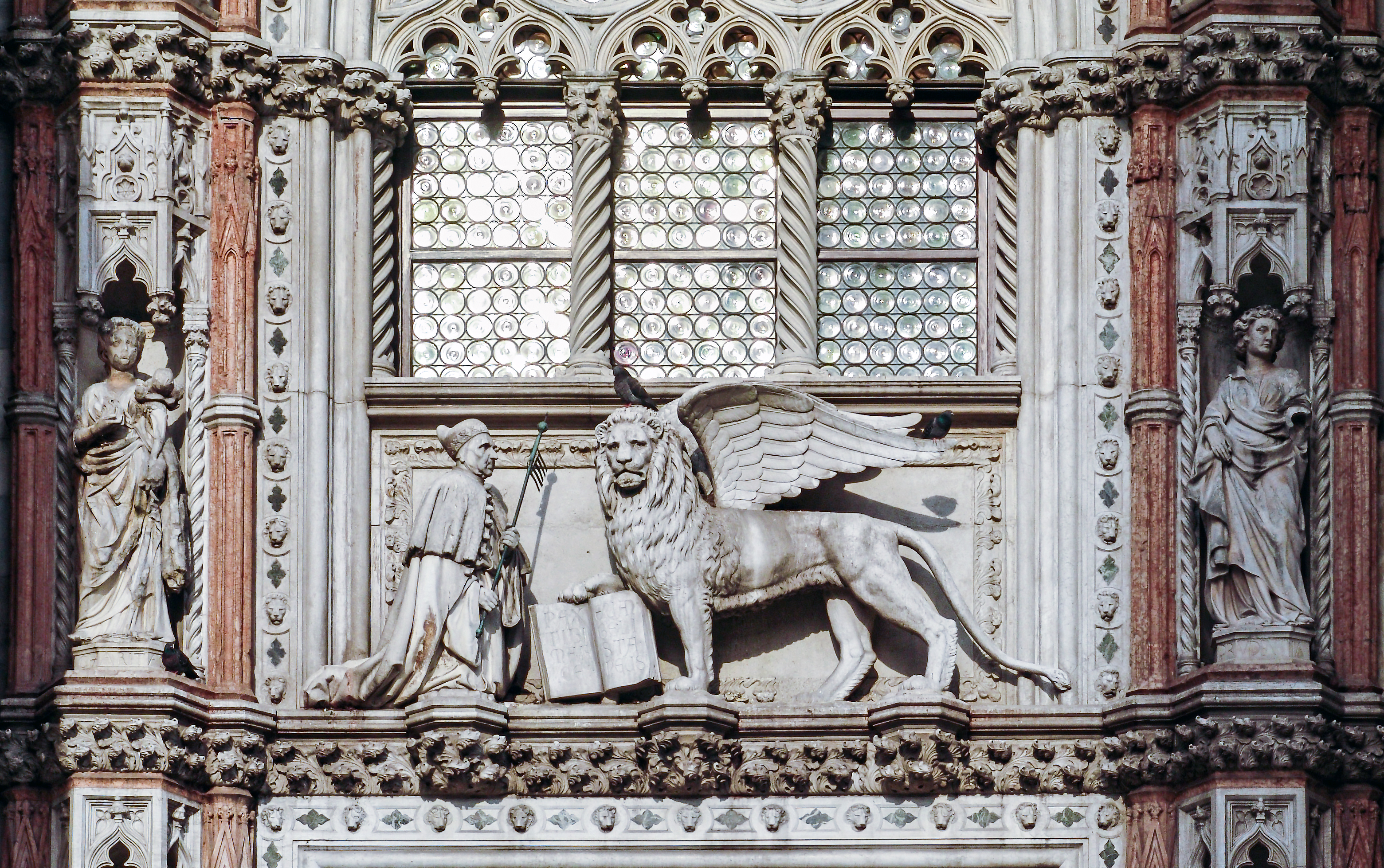 The "Porta della Carta" is the entrance of the Palazzo Ducale in Venice. It was built in the flamboyant Gothic style designed by Giovanni and Bartolomeo Bon in 1438-1442. Above the door, shows the Doge Francesco Foscari; sculpture that you see now, however, is a nineteenth century copy, sculpted by Luigi Ferrari after the original was destroyed in 1797, the fall of the Venetian Republic.